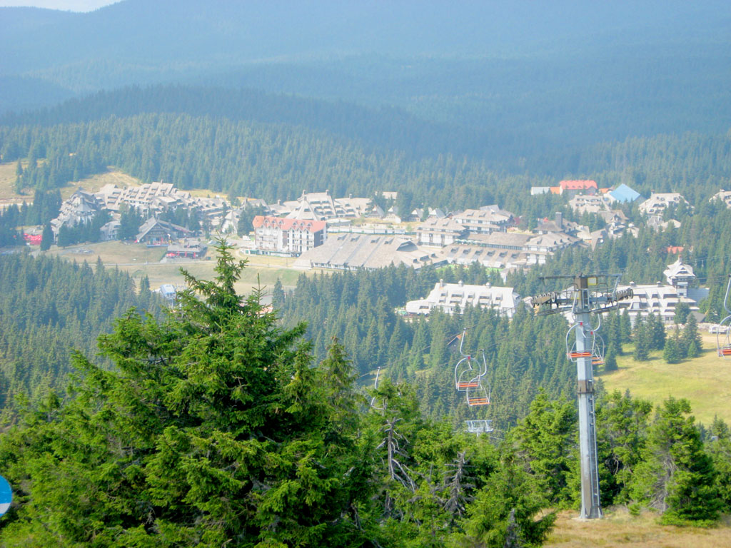 Hotels on Kopaonik from slopes of Suvo Rudište (1976m).